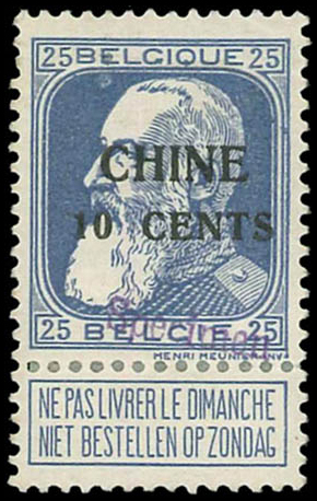 Postage stamp of Belgium, king Leopold II, overprinted for use in China, unissued specimen 1908, 10 cents over 25 centimes.